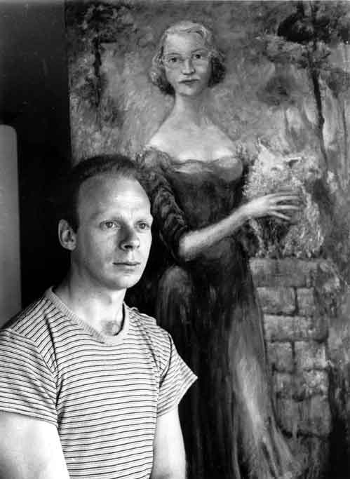 Artist Peter Benjamin Graham in front of his portrate of Virginia Smith